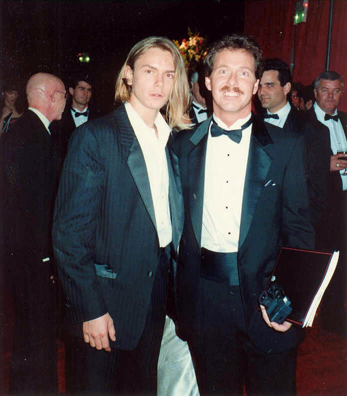 River Phoenix (left). Photo taken at 61st Academy Awards 3/29/89 - Governor's Ball - Permission granted to copy, publish or post but please credit "photo by Alan Light" if you canRiver Phoenix